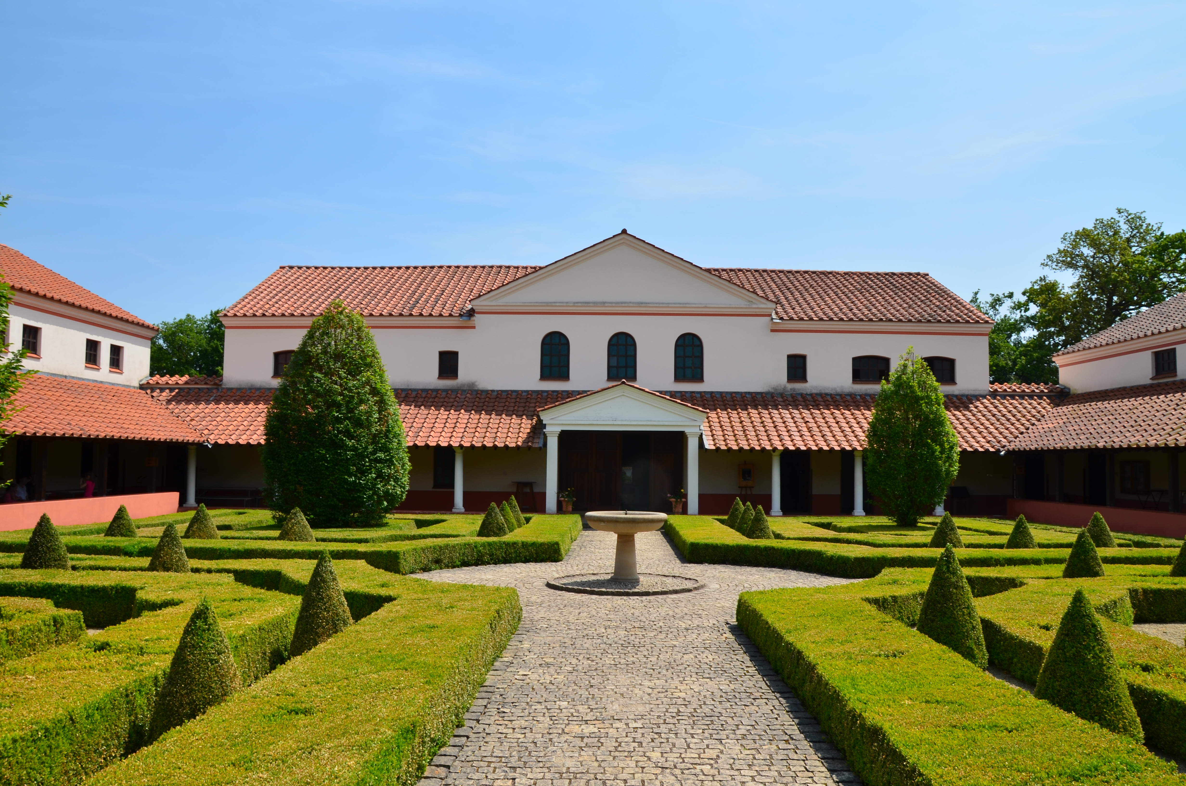 Roman Villa Borg, Germany